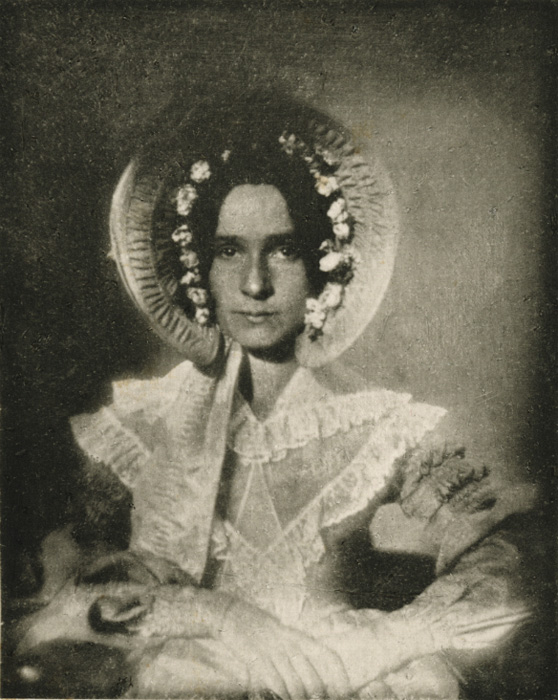 Dorothy Catherine Draper (earliest surviving photograph of a woman). That is also oldest and most well-defined and visible human portrait picture